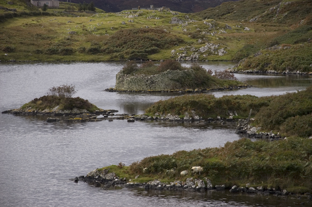 Dun Cromore